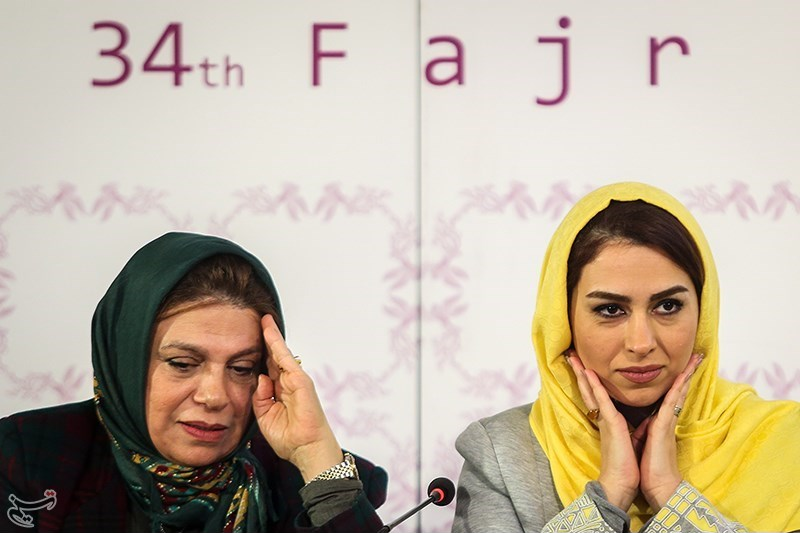 Tina Pakravan and Gohar Kheir-Andish in the press conference of Happened at midnight film(Persian: نیمه شب اتفاق افتاد) at the 34th Fajr Film Festival.